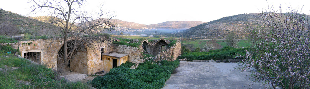 Han Al-Luban, Archeological sites of Israel